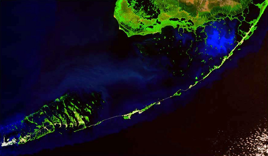 The raw satellite imagery shown in these images was obtain from NASA and/or the US Geological Survey. Post-processing and production by